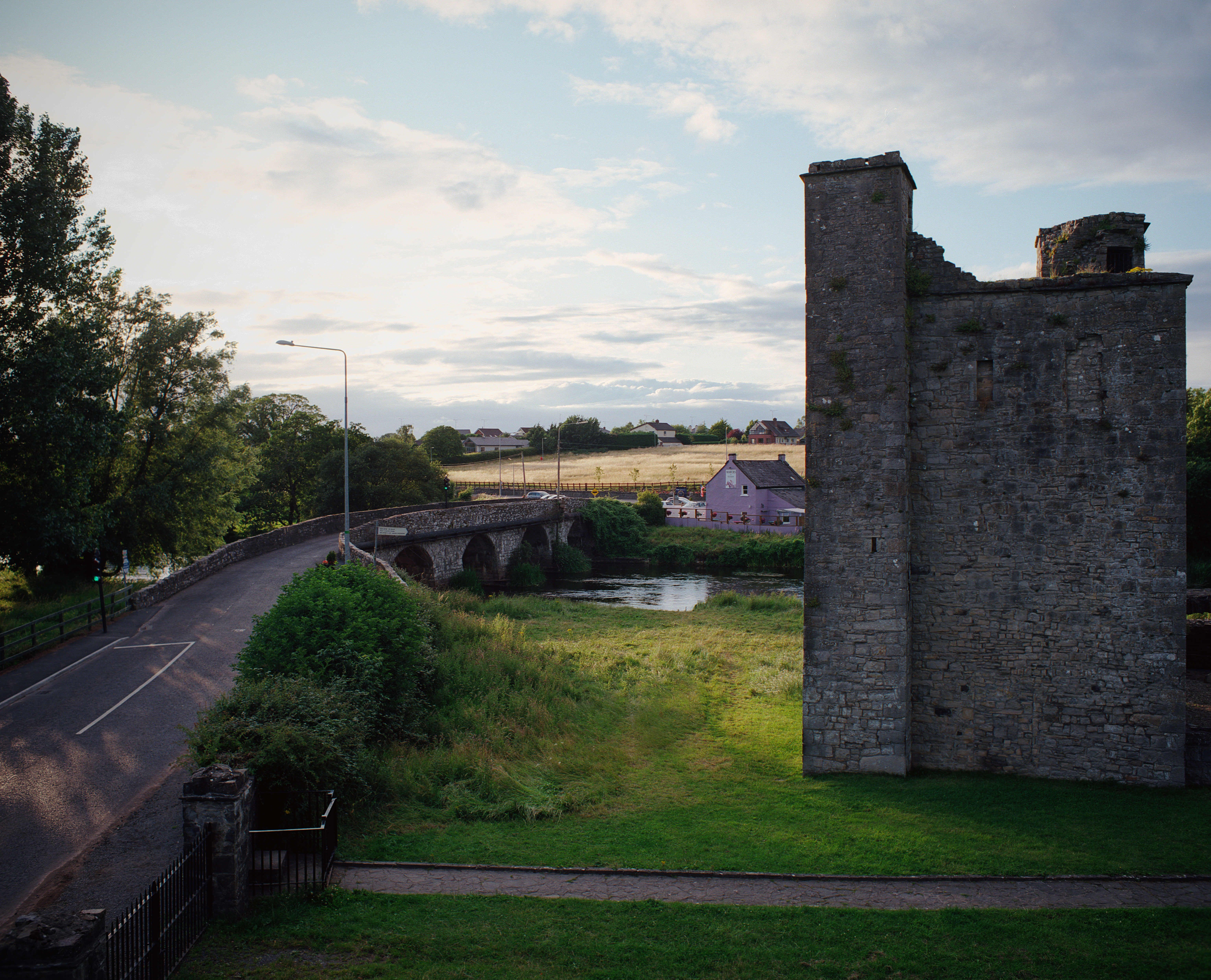 The lands of the Priory were transferred to private ownership following its dissolution in 1540. The blockhouse seen here was constructed to guard the approach to Trim from Newtown Bridge. This image was taken from a surviving turret, which would have formed part of a wall enclosing the site.